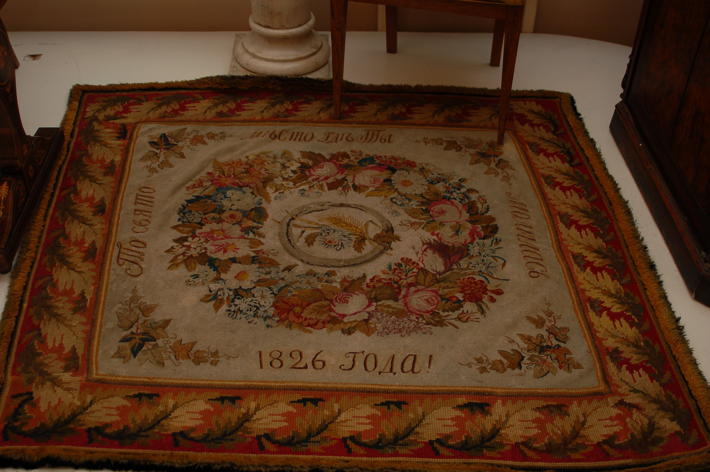 City Development Museum, formerly was exhibited at the Alexander I Palace in Taganrog. The inscription in Russian reads: "Blessed Be the Place where You Prayed. 1826!"